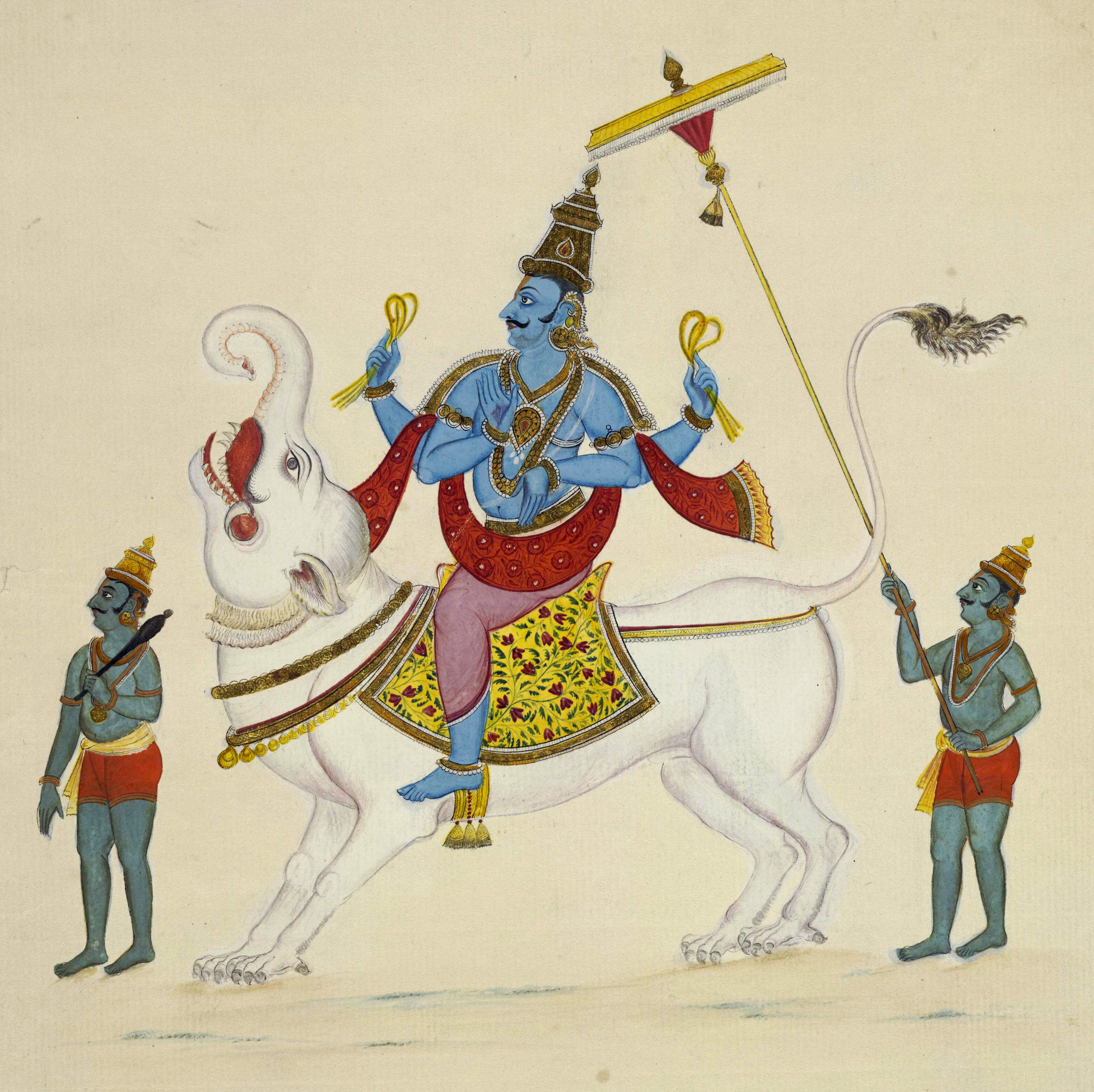 "Blue-skinned Varuna, the dikpala. He is shown riding on his makara vahana and is depicted four-armed with a lasso in each of the two upper hands; the lower ones are held in abhayamudra (his right) and varadamudra (left). In front of him walks an attendant with a club while behind is shown another attendant holding a parasol high above the god's head. Some suggestion of persective is given by the sketched in foreground. On laid European paper watermarked with a fleur de lys."